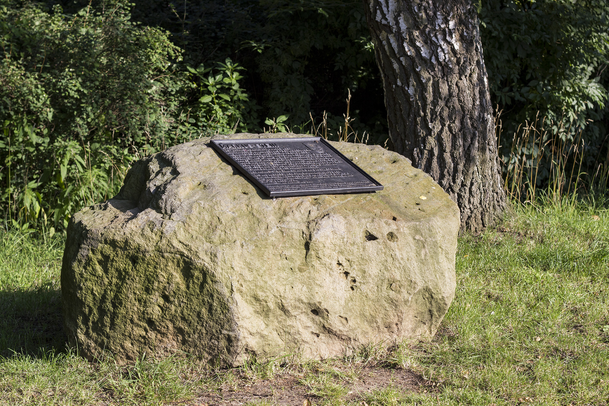 Markus-Stone, Hungen Villingen.